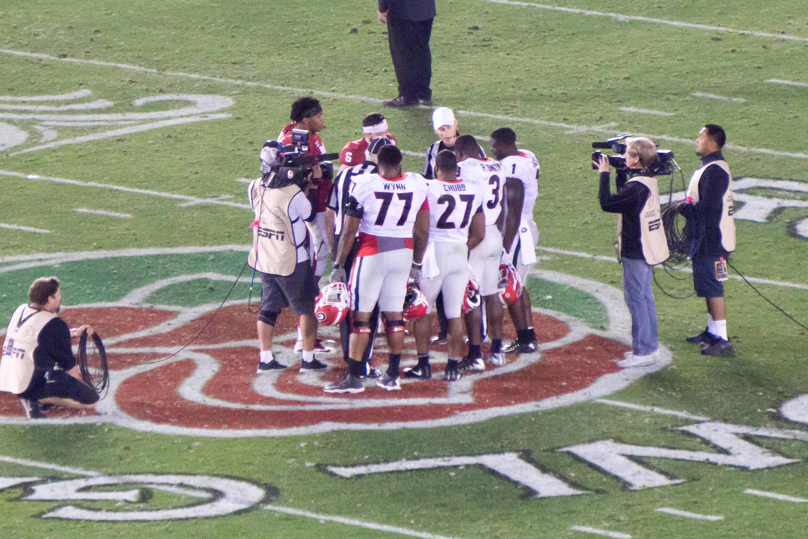 Captains of the Oklahoma Sooners and Georgia Bulldogs participate in the coin toss to determine overtime rules.